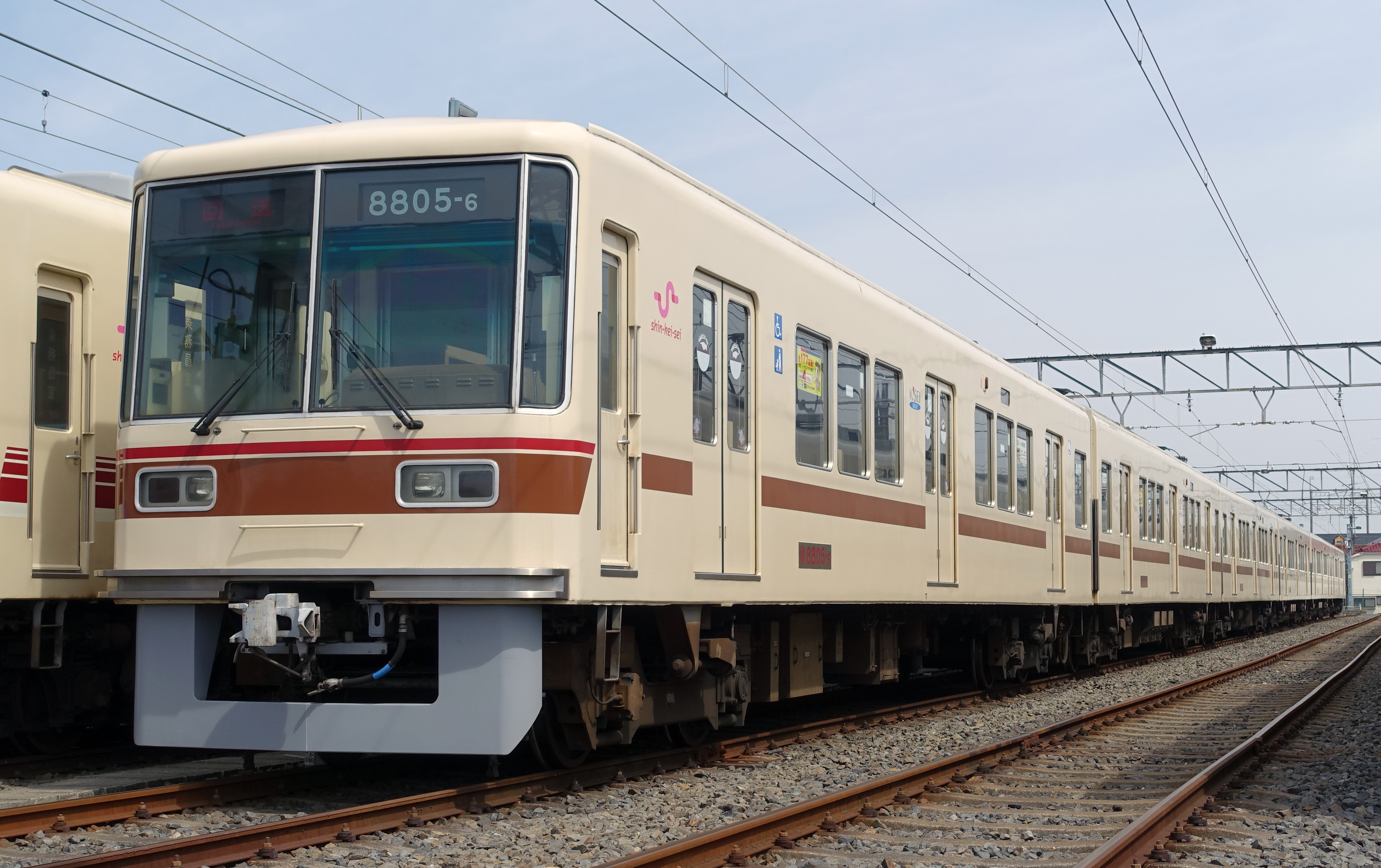 Shin-Keisei 8800 series EMU set 8805 at Kunugiyama Depot